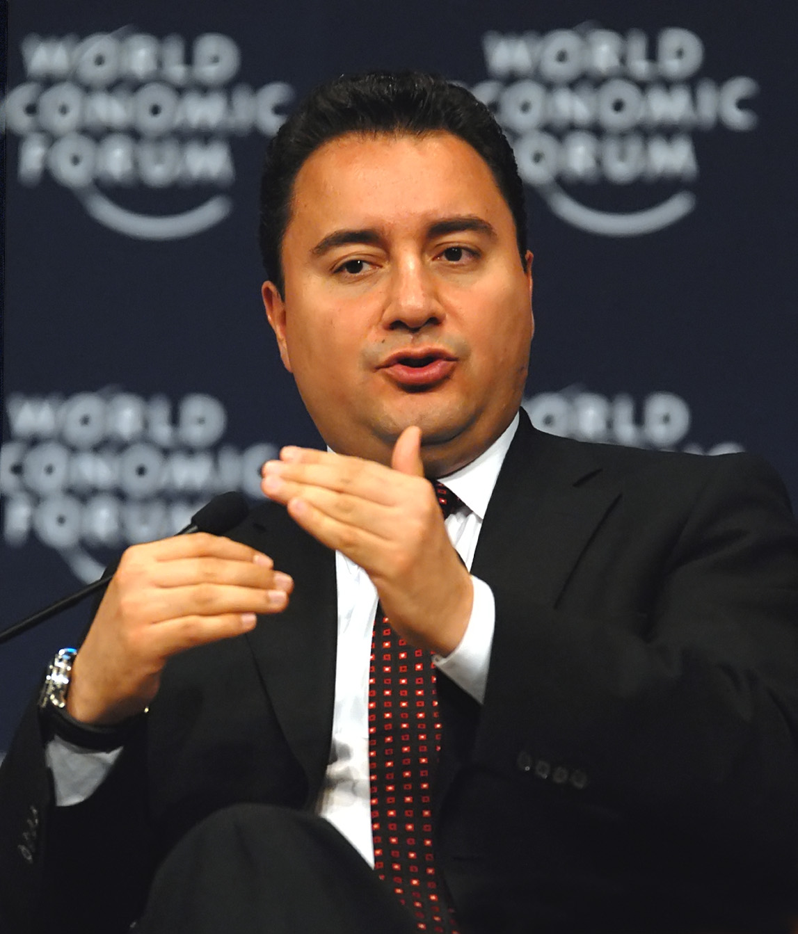 SHARM EL SHEIKH/EGYPT, 19MAY08 - Ali Babacan, Minister of Foreign Affairs and Chief Negotiator of Turkey, captured during the session "Fresh Strategies for Stability?" at the World Economic Forum on the Middle East 2008 held in Sharm El Sheikh, Egypt.